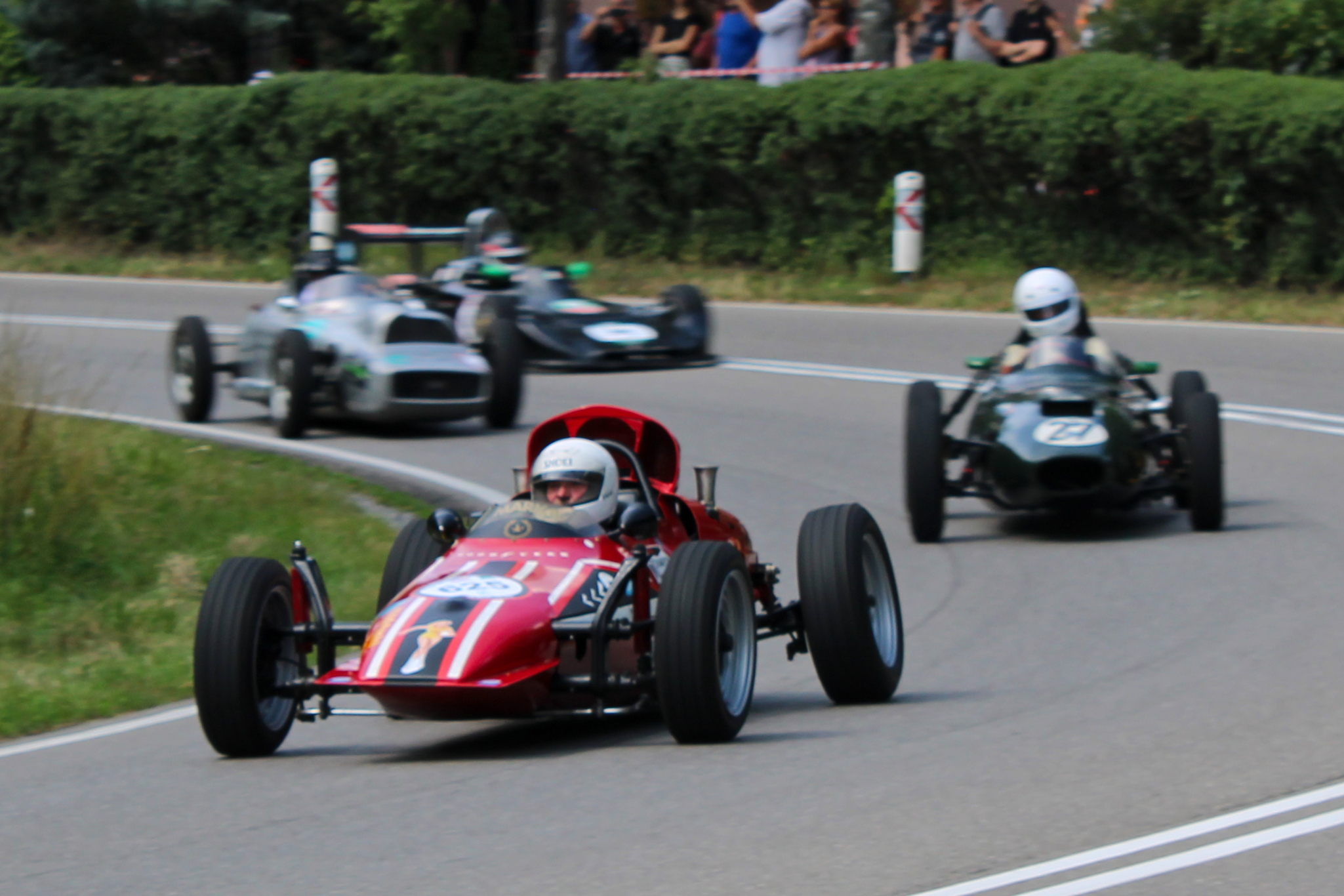 Kaiman V 1300 at Solitude Revival 2019